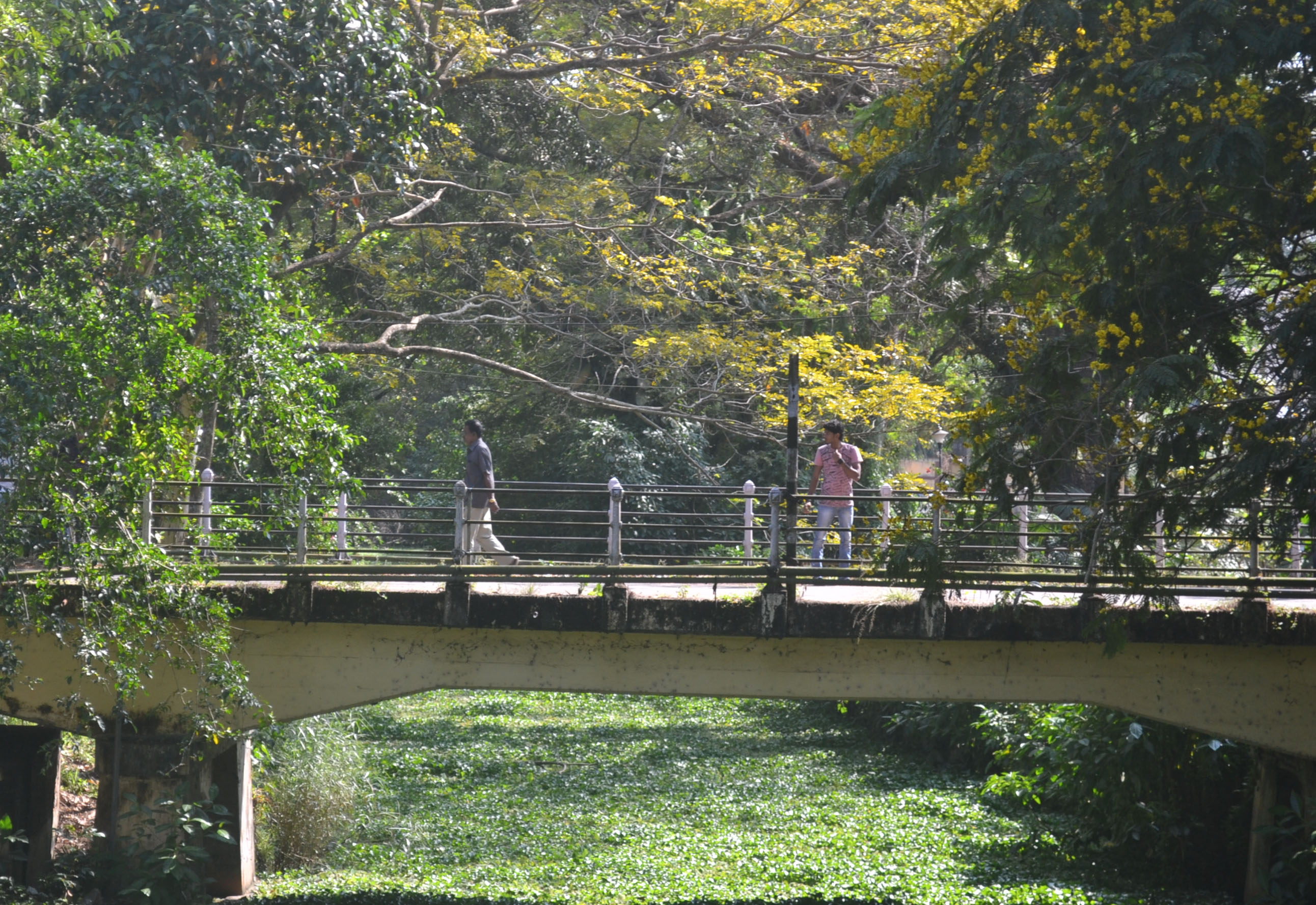 TriBridge - Muppalam Allappuzha Alleppey